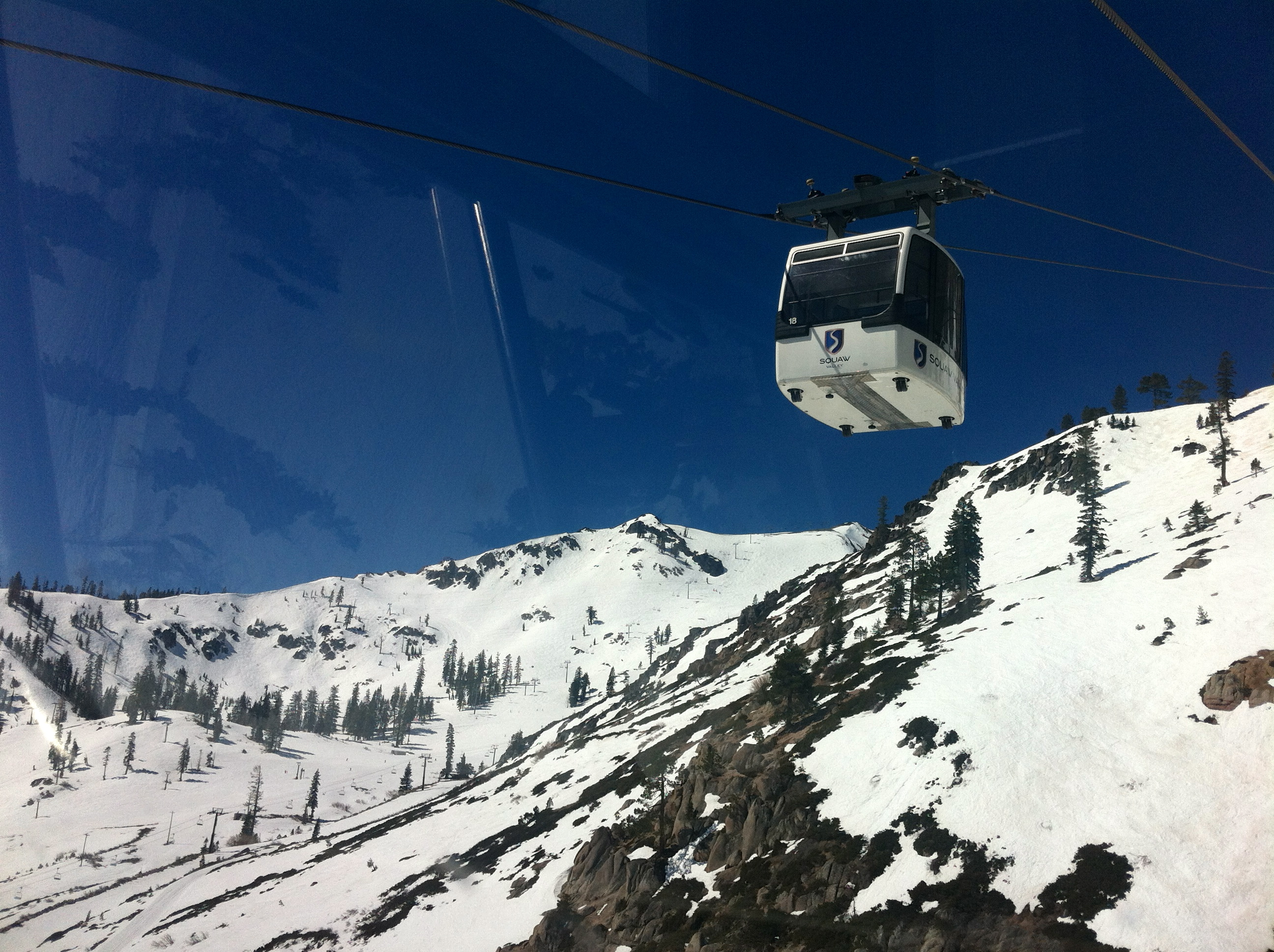 Funitel at Squaw Valley Ski Resort, Olympic Valley, California in April, 2012.